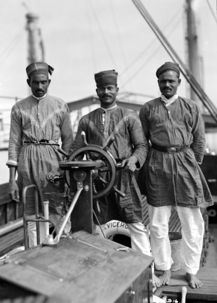 Reproduction ID: P85233 Maker: Marine Photo Service Date: 1930-1939 Materials: Cellulose acetate negative This photograph is featured in Waterline, a new photographic exhibition revealing the joys and trials of the heyday of cruising. It's on at the National Maritime Museum until April 2011